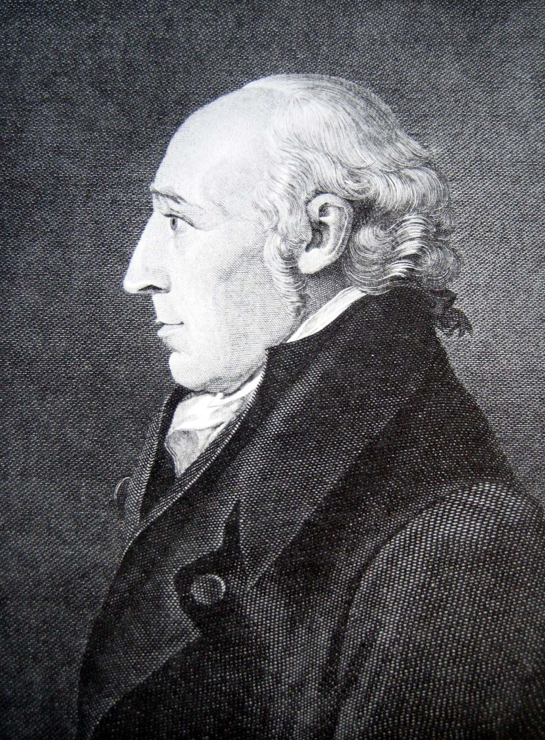 Hans C. Escher 1823, three days before he died